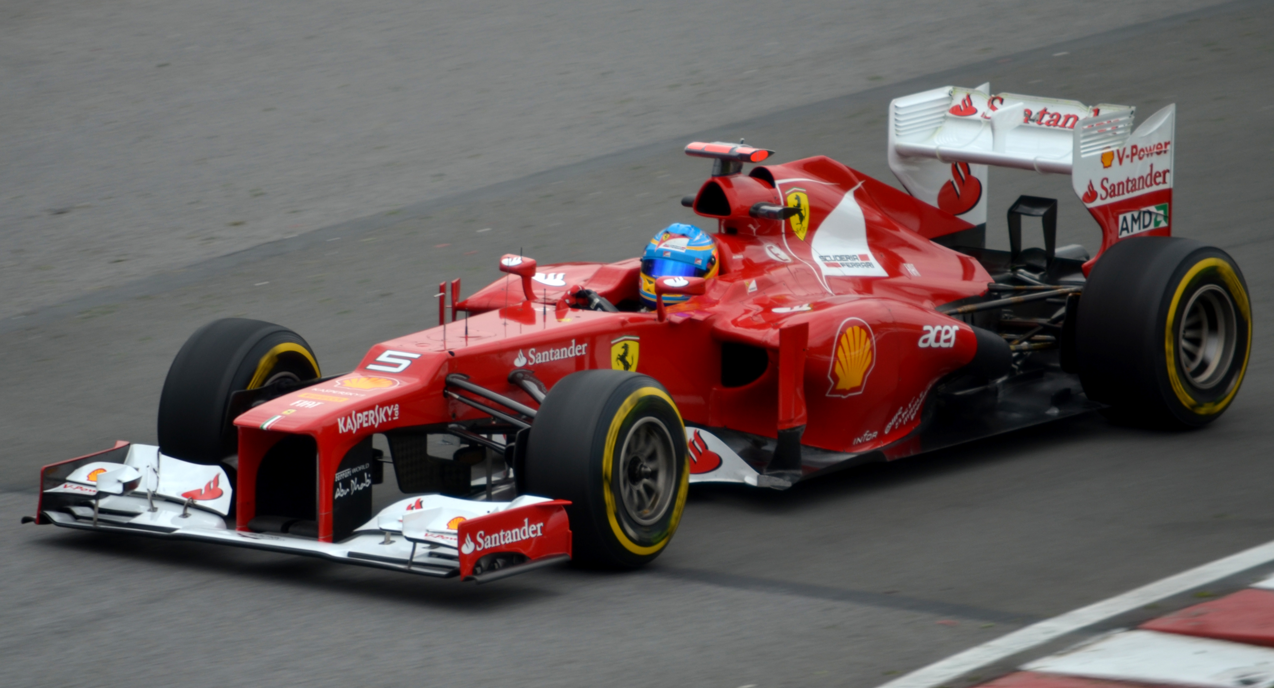 Fernando Alonso in the Ferrari F2012 exits turn 9 at Circuit Gilles Villeneuve during first practice for the 2012 Canadian Grand Prix